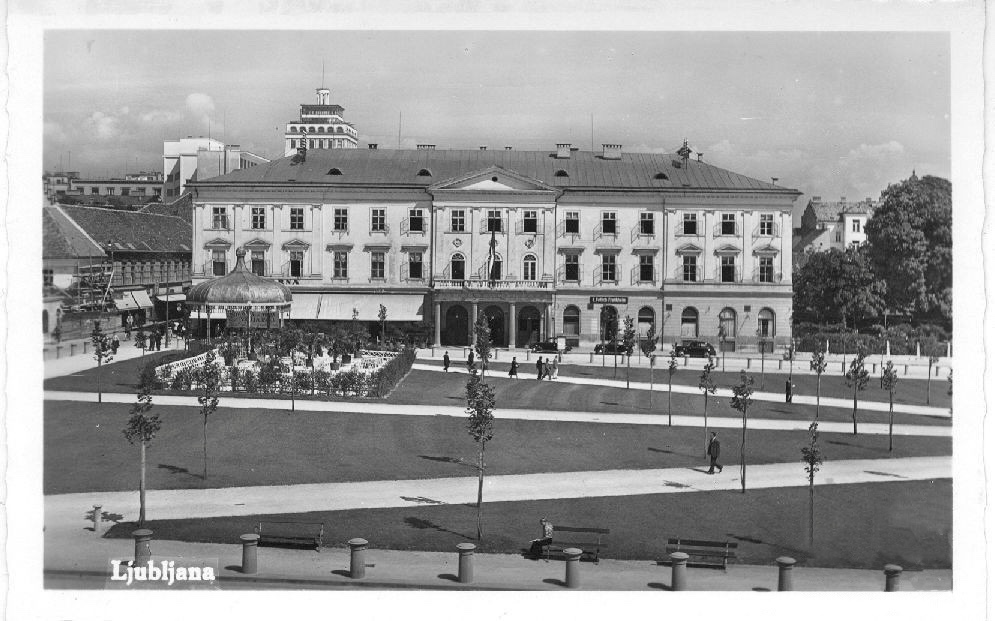 Postcard of Ljubljana, Congress Square